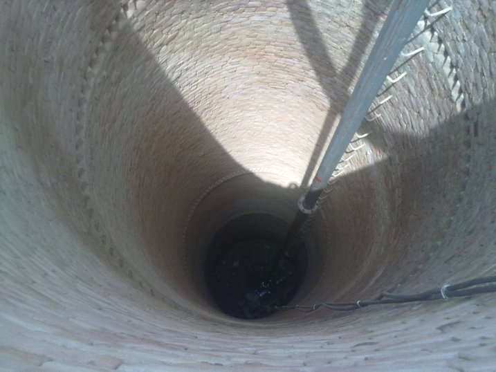 Borehole of a tubewell. Its more than 150 feet with a 4 horsepower pump at bottom.